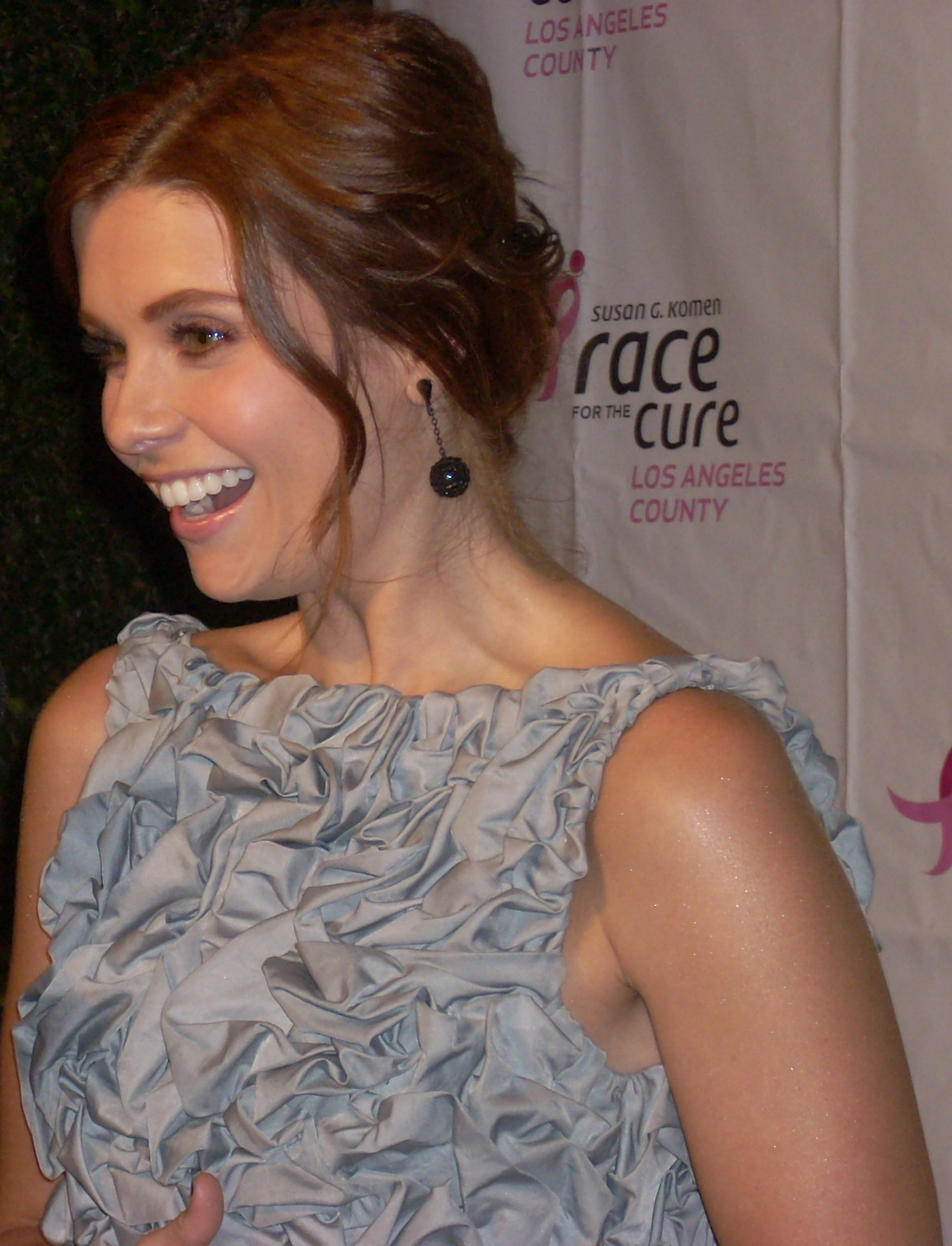 Susan G. Komen Fundraiser at Mulberry, Melrose Place, Los Angeles Hosted by "Privileged" Star Joanna Garcia - Oct. 21, 2008